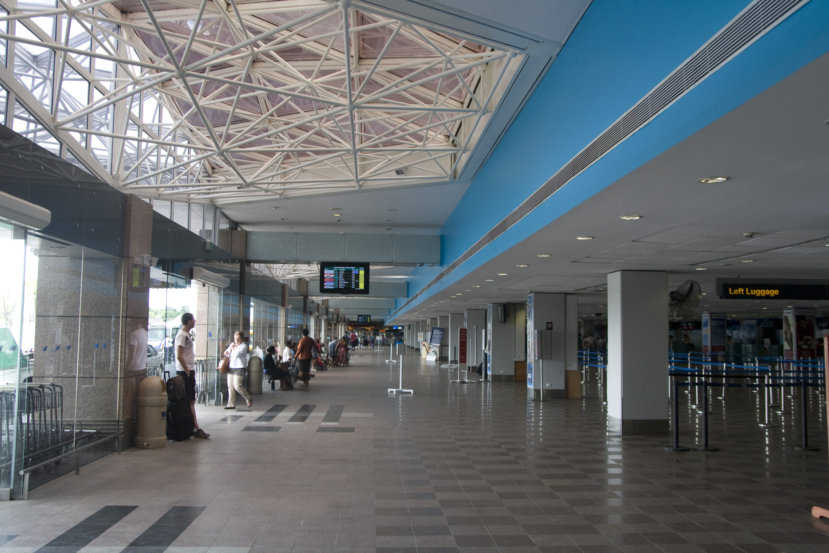 Nadi Airport - International Departures